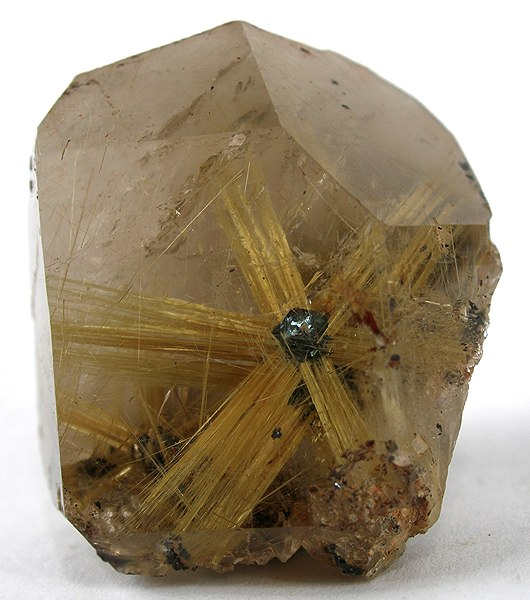 Rutile, Hematite, Quartz Locality: Novo Horizonte, Bahia, Northeast Region, Brazil (Locality at ) Size: 2.7 x 2.4 x 1.7 cm. This is a superb rutilated "star" in a thumbnail-sized specimen. The star is complete, symmetric, and very balanced. It is oriented outward to the display angle for the crystal as a whole, and needs no polishing to see it (usually the quartz must be at least lightly polished to see such stars inside, and its rare that they orient to a good display angle with the crystal they form in, as well). Note the small hematite crystal acting as the stellar nucleus, at center. Weighs 69 carats or about 14 grams.